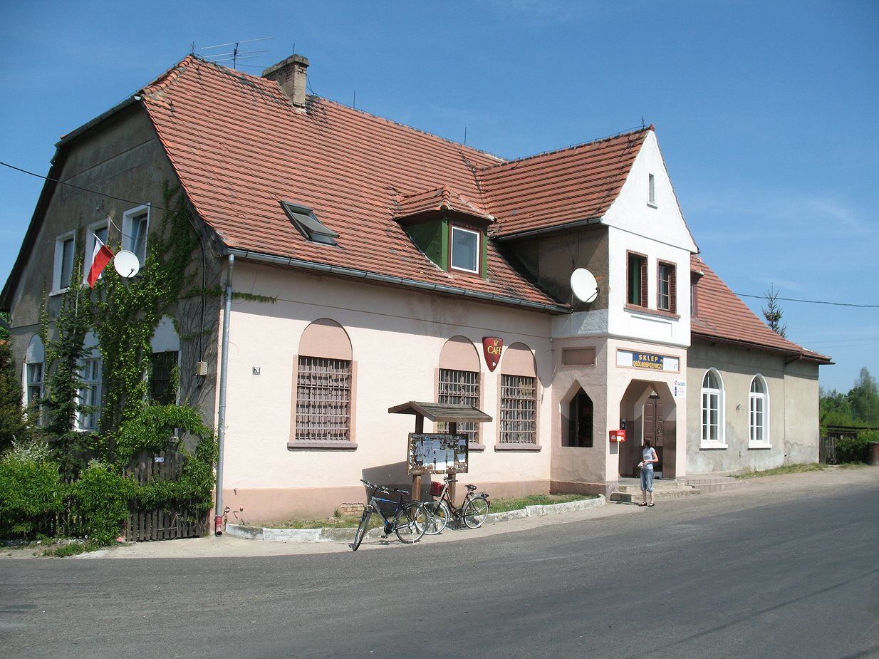 A shop in the village of Buchałów (before WWII Buchelsdorf). Before the war the building was used as an inn